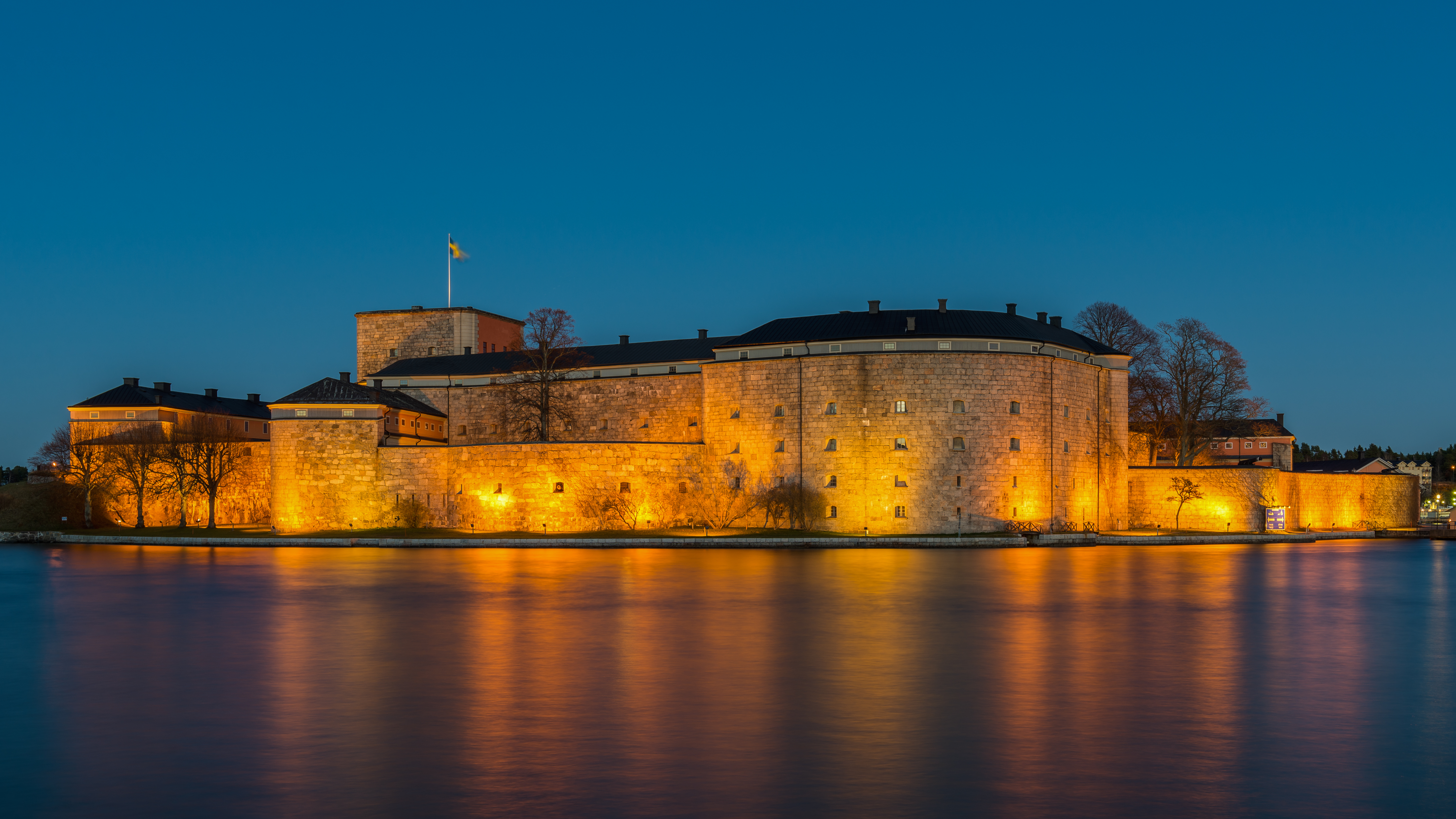 Vaxholm Fortress, november 2013.